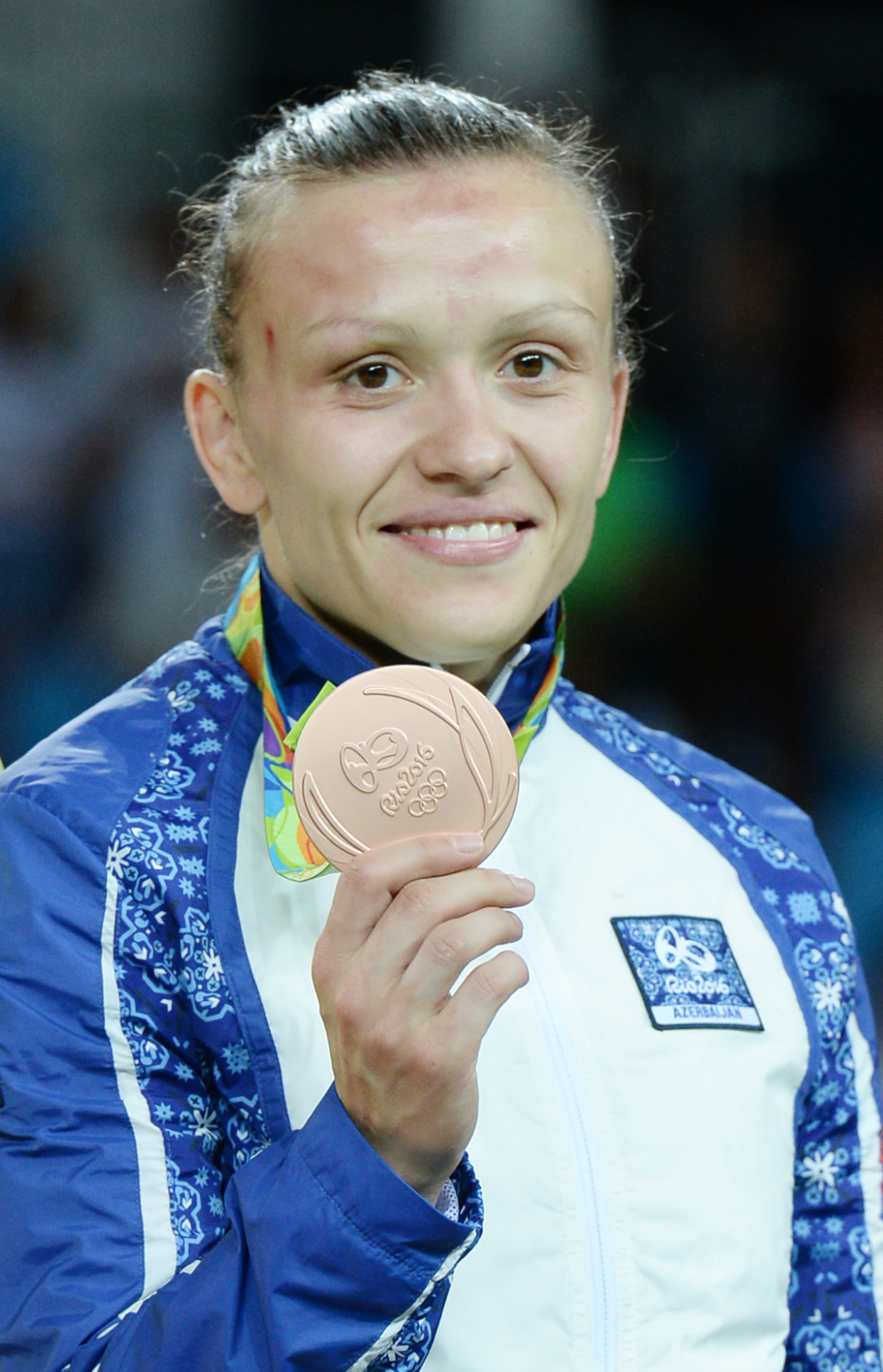 Nataliya Synyshyn at the 2016 Summer Olympics awarding ceremony